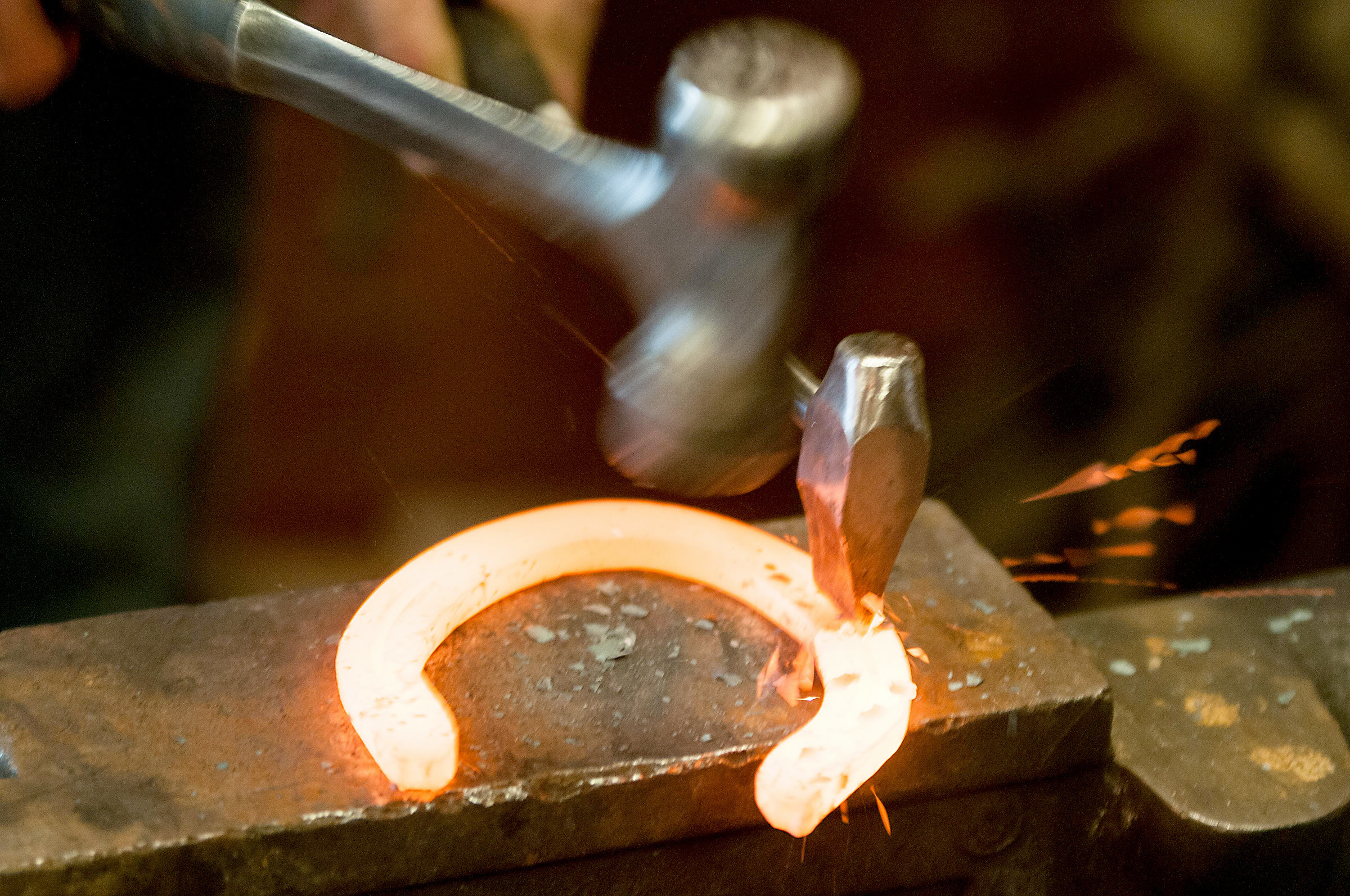 Spc. Todd D. Kline of the Caisson Platoon, 1st Battalion, 3rd U.S. Infantry Regiment (The Old Guard), forges a horseshoe at the Caisson Stables on the Fort Myer portion of Joint Base Myer-Henderson Hall, April 9. Part of the care of the platoon’s steeds includes the repair and forging of new shoes. The horses require routine care on their shoes and new shoes every six weeks or as needed. (Photo by Spc. Cody W. Torkelson)